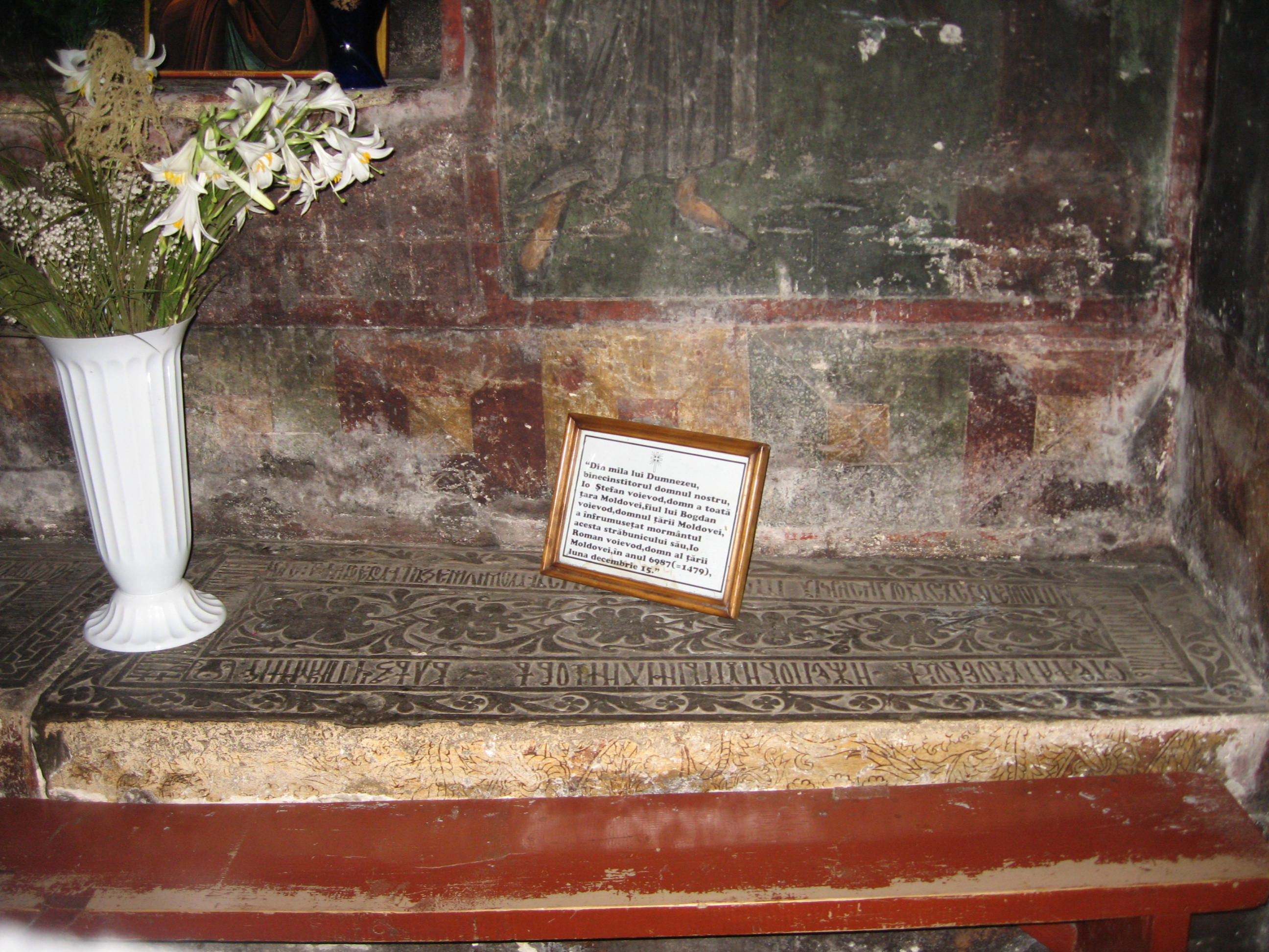 Bogdana